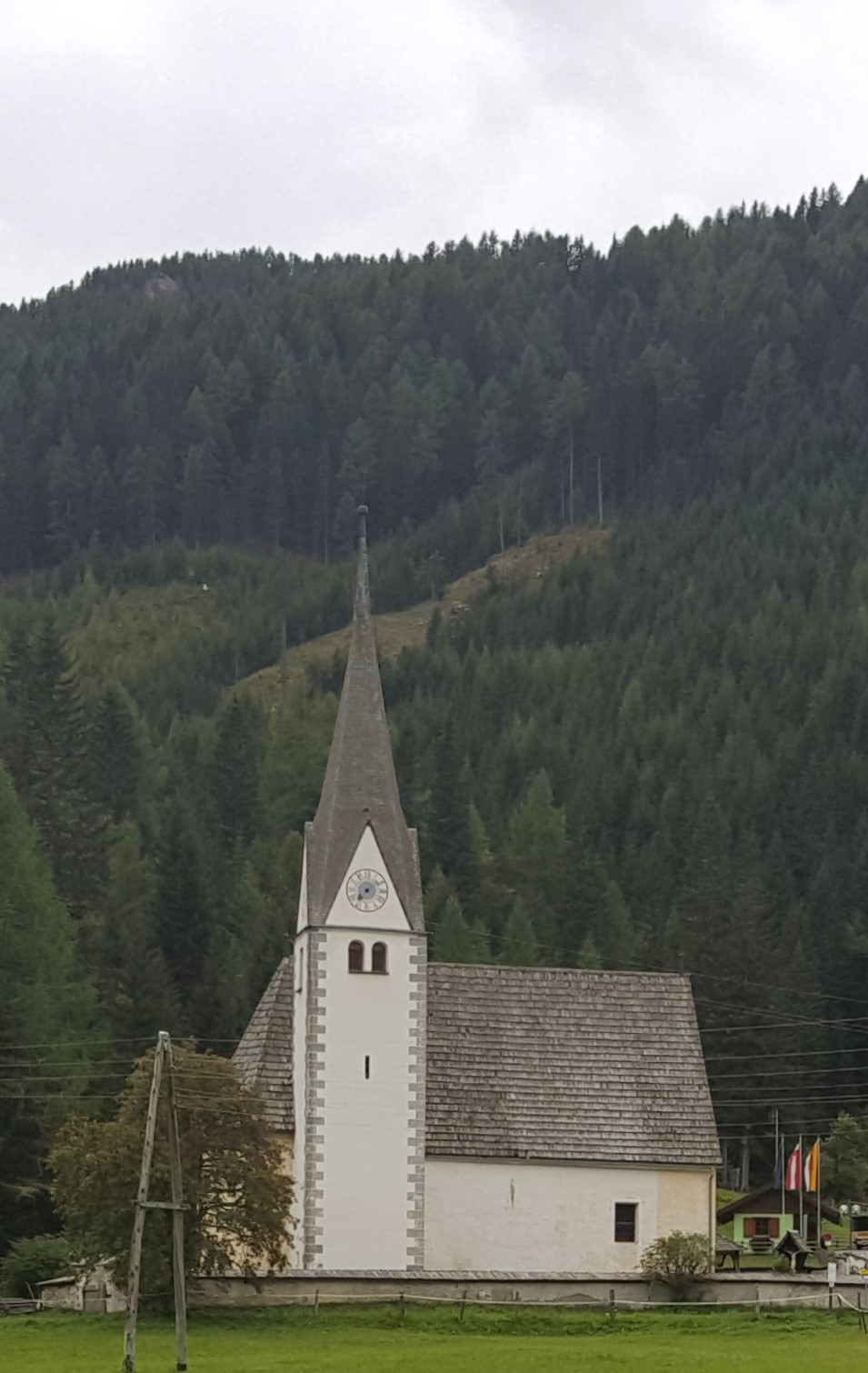 Catholic church in Innerkrems